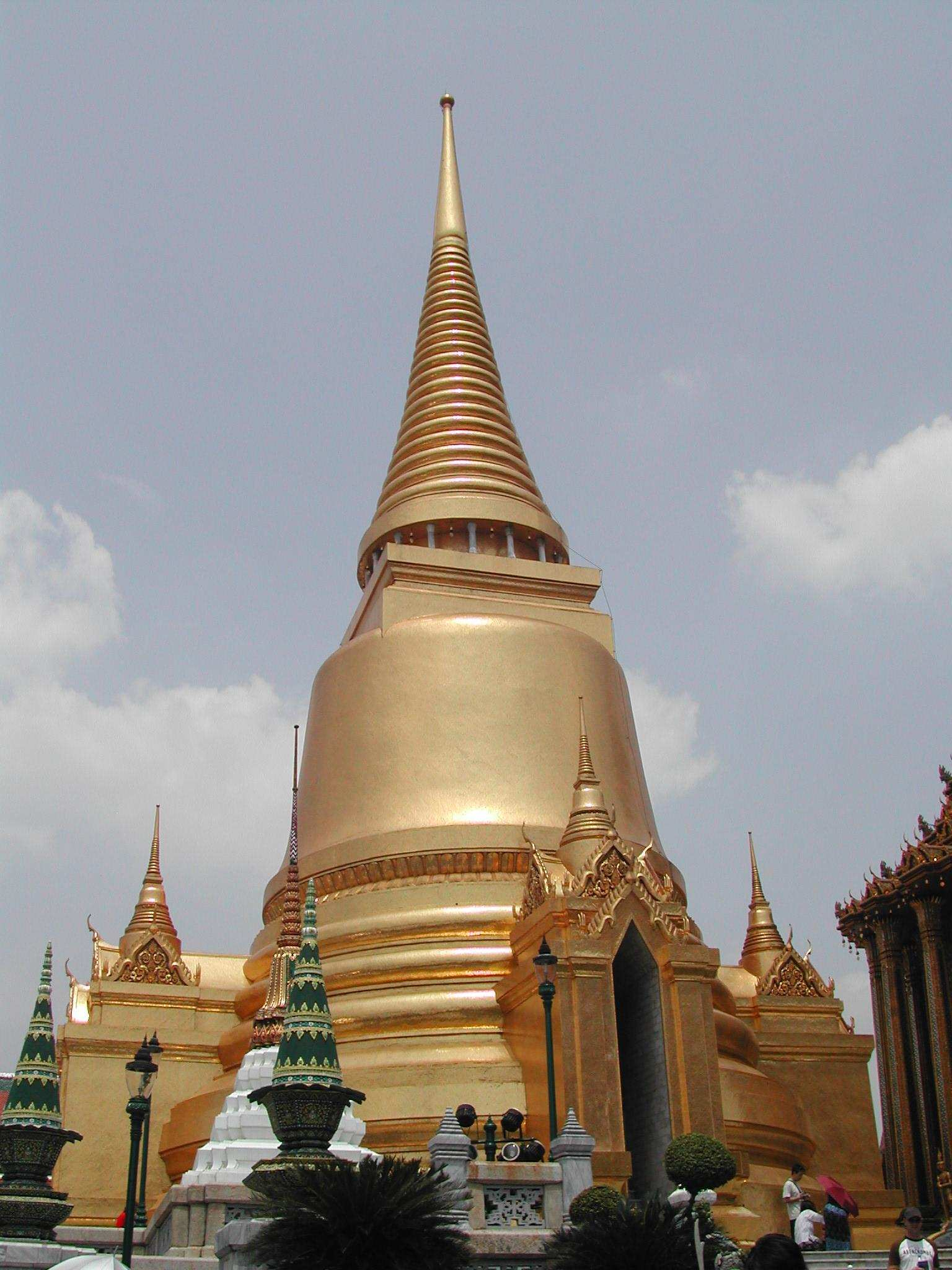 Phra Sri Ratana Chedi of Wat Phra Kaeo, Bangkok